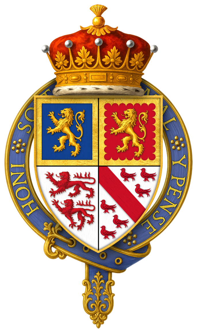 Sir John Talbot, 2nd Earl of Shrewsbury, KG HOPE, W. H. St. John, The Stall Plates of the Knights of the Order of the Garter 1348 – 1485: A Series of Ninety Full-Sized Coloured Facsimiles with Descriptive Notes and Historical Introductions, Westminster: Archibald Constable and Company LTD, 1901. “ Sir John Talbot, Earl of Shrewsbury and Waterford, K.G. 1424-1453… the shield of arms, which is quarterly: 1, azure a lion and a bordure gold (for Talbot); 2, gules a lion and a bordure engrailed gold (for Talbot); 3, silver two lions passant gules (for Strange); 4, silver a bend and six martlets gules (for Furnivall)... ” Talbot's stall plate remains intact within the twenty-second stall, on the Prince's side of the chapel.